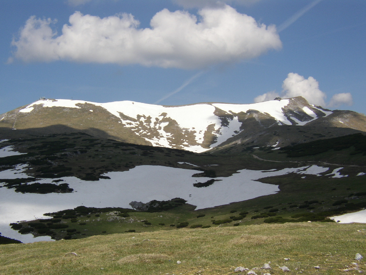 Summit regions of the Schneeberg. At the left the Klosterwappen (summit), at the right the Fischerhaus (mountain lodge), in the foreground the Ochsenboden.